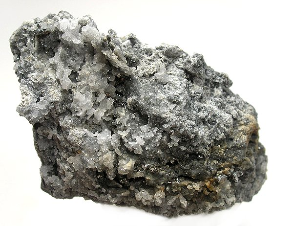 Tellurium, Quartz Locality: Emperor Mine, Vatukoula, Tavua Gold Field, Viti Levu, Fiji (Locality at ) Size: 4.7 x 4.2 x 2.6 cm. This is a miniature sized specimen rich with perhaps 2 dozen sub-mm crystals, eye visible, scattered all over it. On the nice, crystallized quartz of the display face are two larger crystals which are almost 2 mm in size, bright and sharp, and possibly twinned.